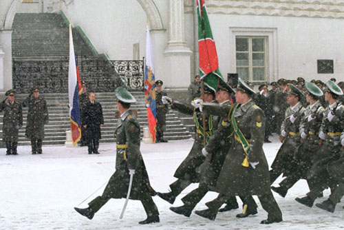 CATHEDRAL SQUARE, THE KREMLIN, MOSCOW. A march past at a banner presentation ceremony to services and arms of the Russian Armed Forces.